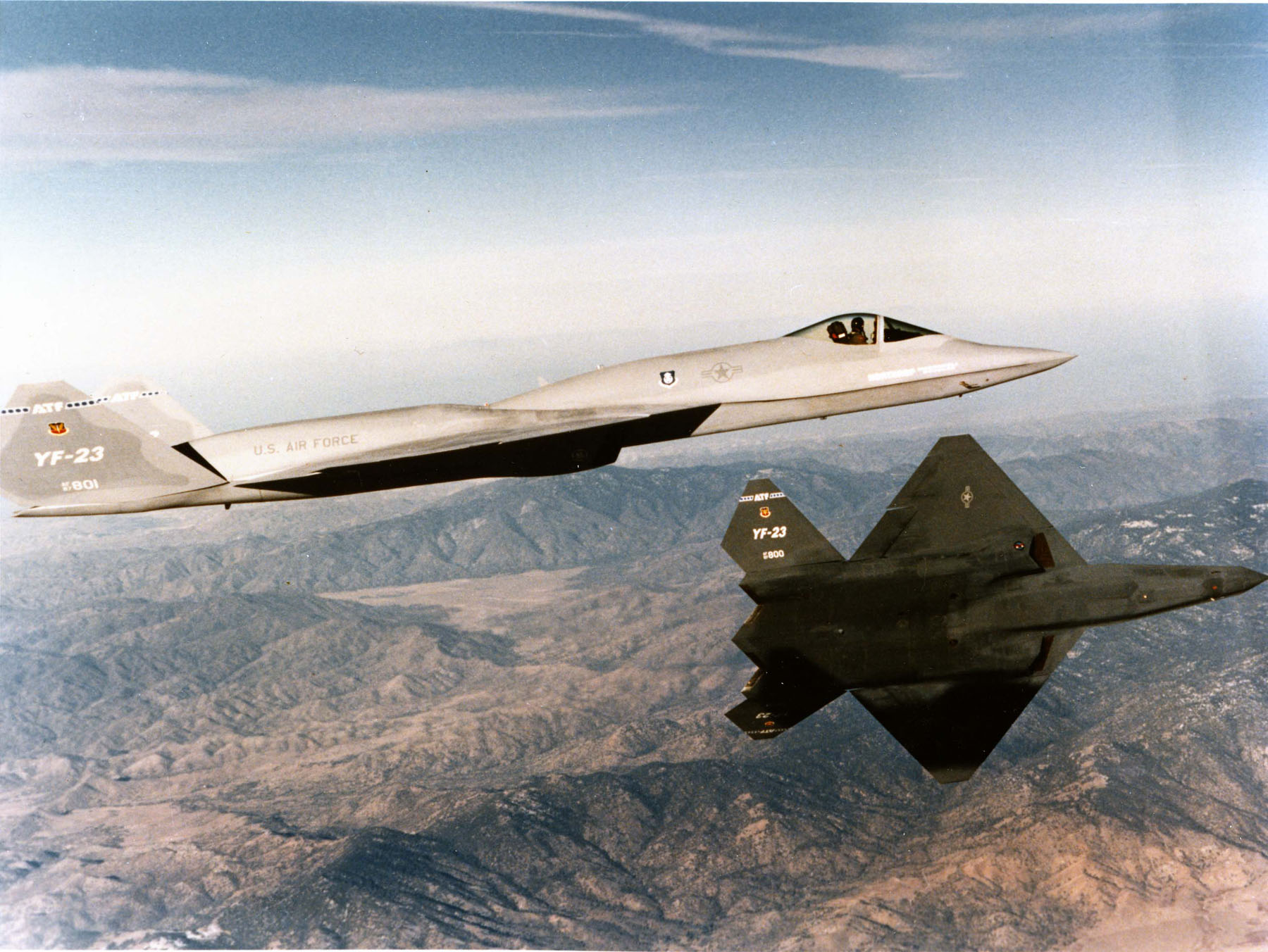 Both YF-23s in flight. (U.S. Air Force photo)